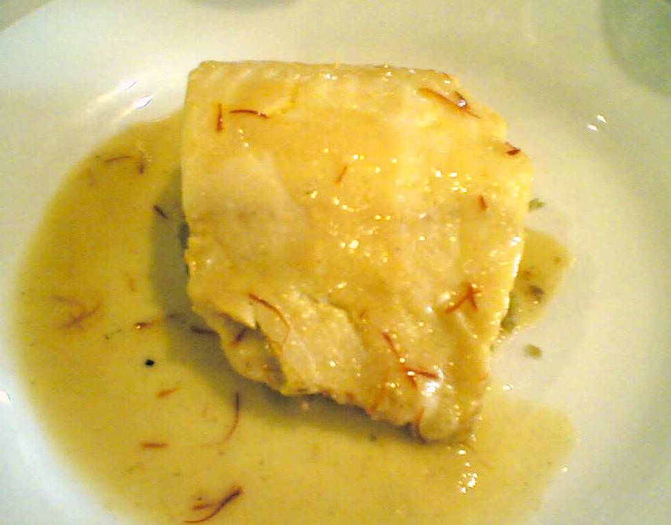 Smoked haddock with pease pudding and saffron